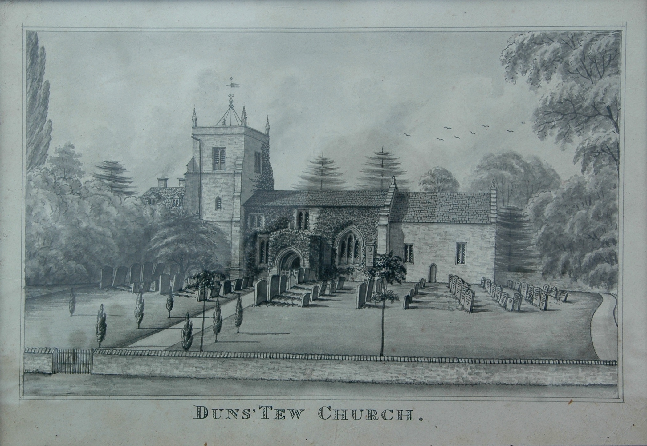 Church of England parish church of St Mary, Duns Tew, Oxfordshire: photograph of undated engraving showing view from the south, possibly 18th century.